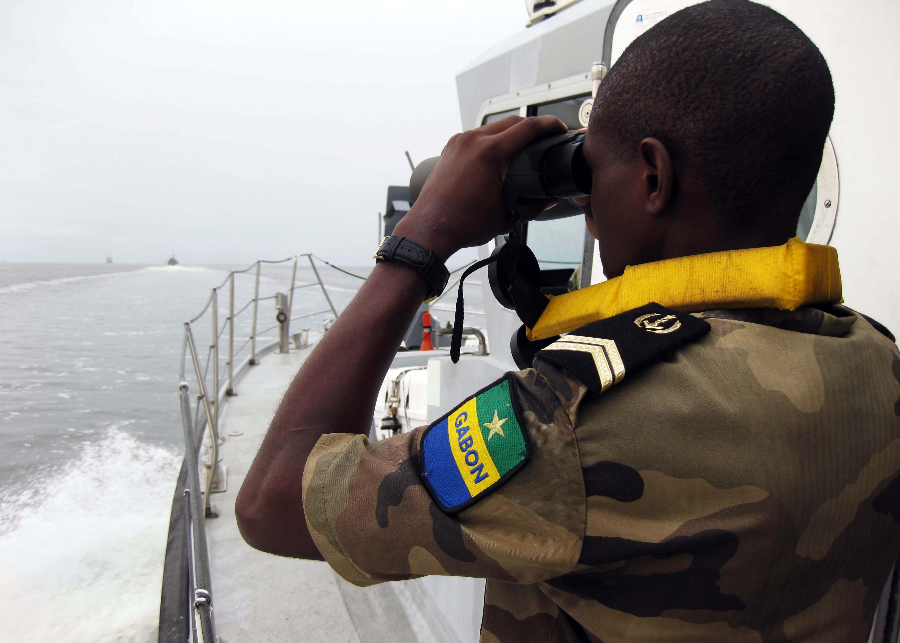 DOUALA, Cameroon (Feb. 22, 2010) Military personnel from Cameroon, Equatorial Guinea, Gabon, Nigeria, Republic of Congo and the U.S. conducting multinational maritime interdiction training during The first multinational exercise in the Gulf of Guinea, Obangame 2010. (U.S. Navy photo by Mass Communication Specialist 1st Class Gary Keen/Released)